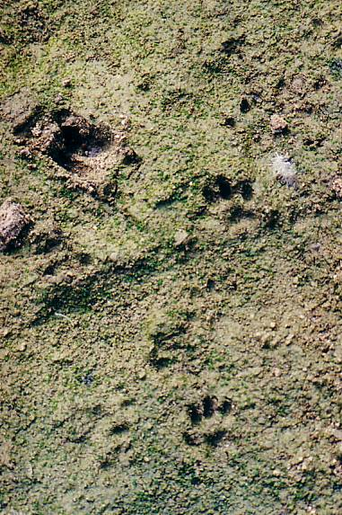 Otter tracks